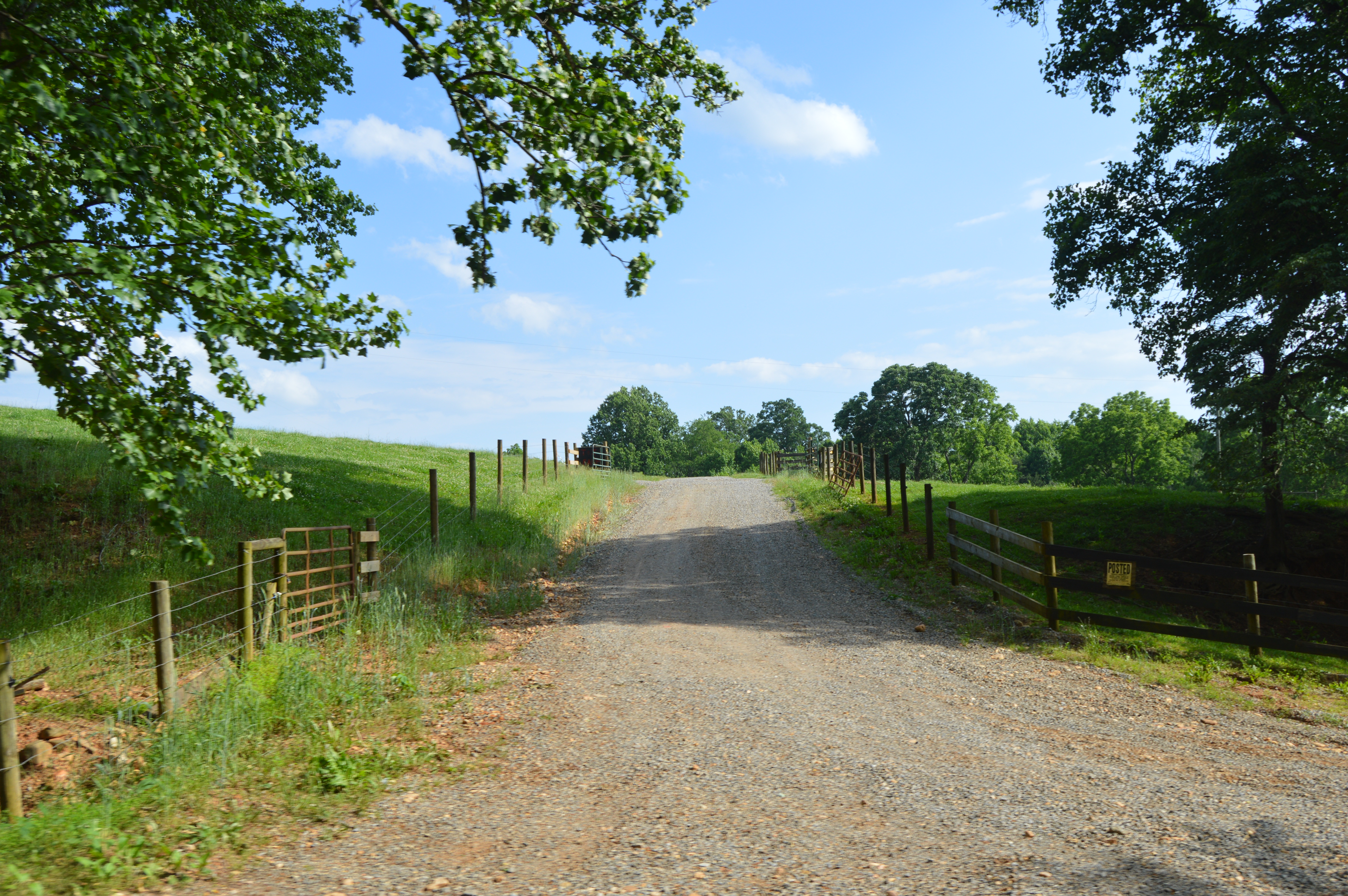 Driveway to the Bleak Hill estate, located on Six Mile Post Road south of Callaway in Franklin County, Virginia, United States. The estate is listed on the National Register of Historic Places.